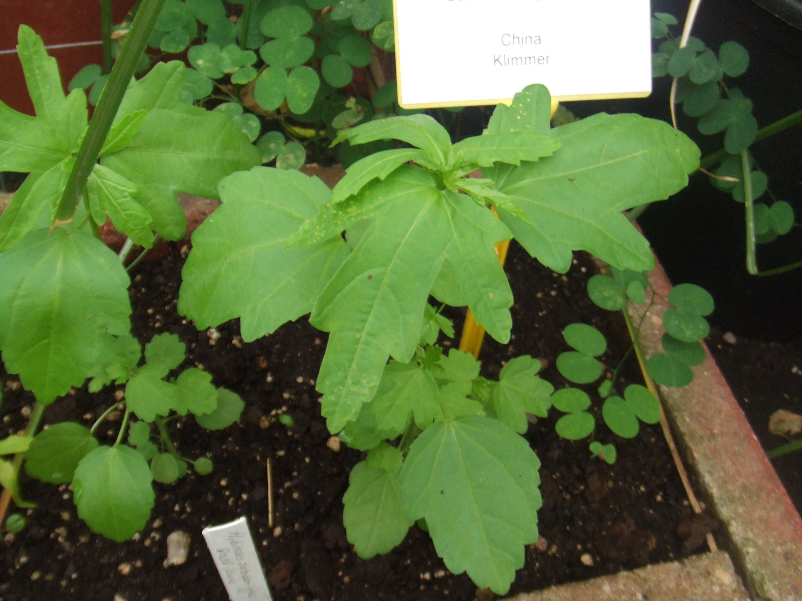 Hibiscus sabdariffa, picture taken at the Botanische tuin TU Delft in Delft, The Netherlands